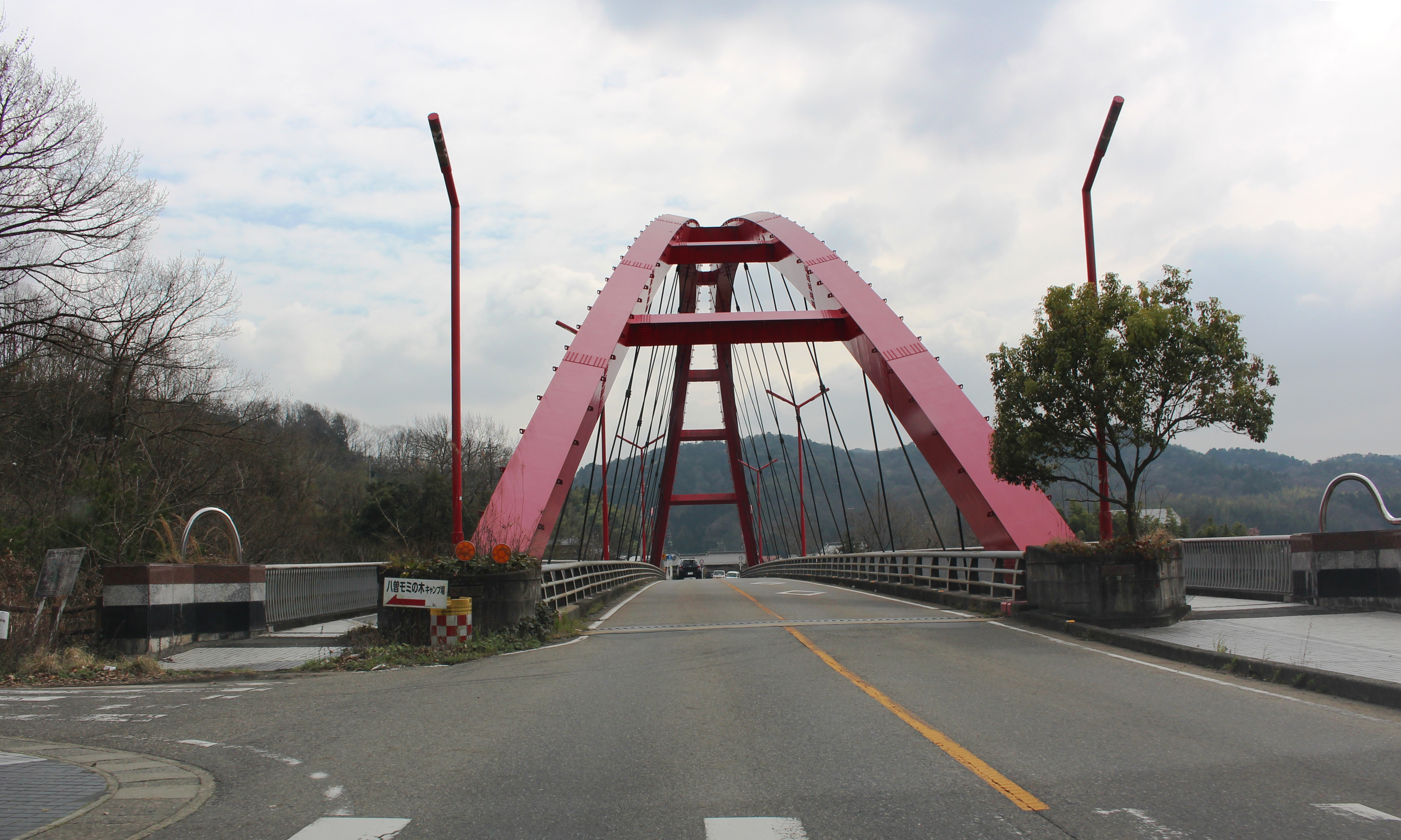 Iruka Bridge over Gojo River of Aichi prefectural road route 49 in Inuyama, Aichi prefecture, Japan.